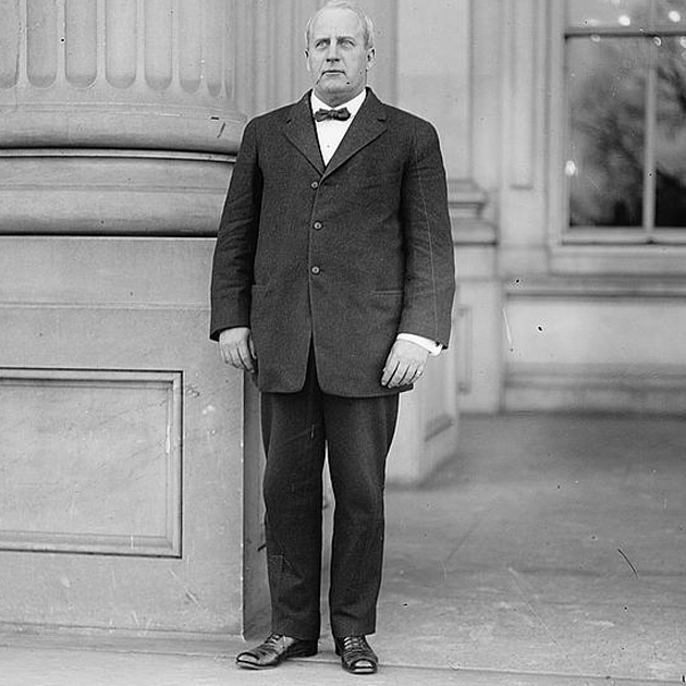 Bain News Service,, publisher. John Allen Sterling circa 1913 at the United States Capitol [no date recorded on caption card] 1 negative : glass ; 5 x 7 in. or smaller. Notes: Title from unverified data provided by the Bain News Service on the negatives or caption cards. Forms part of: George Grantham Bain Collection (Library of Congress). Format: Glass negatives. Repository: Library of Congress, Prints and Photographs Division, Washington, D.C. 20540 USA, General information about the Bain Collection is available at Persistent URL: Call Number: LC-B2- 2690-13